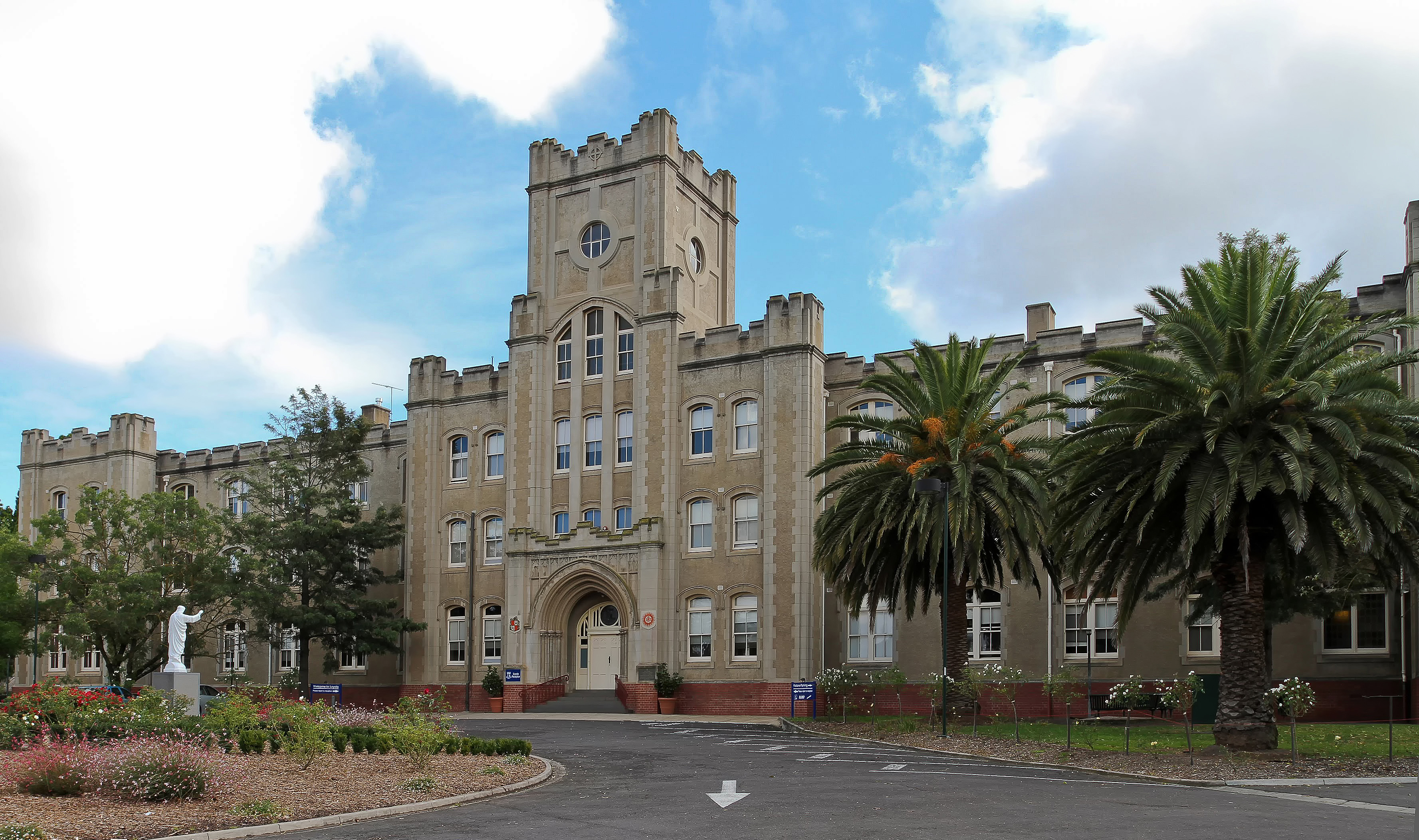 Loyola College in Melbourne, Victoria, Australia, a Roman Catholic independent secondary school